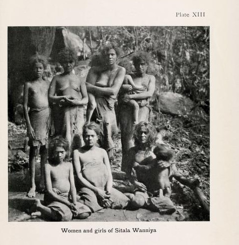 සිංහල: Seligmann, C.G. and B.Z. විසින් රචිත The Veddas කෘතියේ අඩංගු ඡායාරූපයකි.